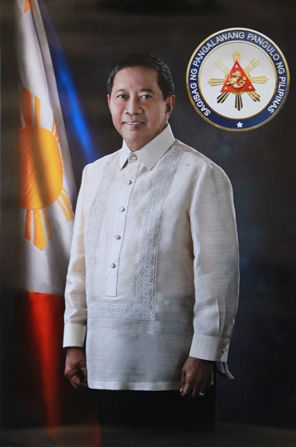 The official portrait of Philippine Vice President Jejomar Binay as published by the Office of the Vice President.